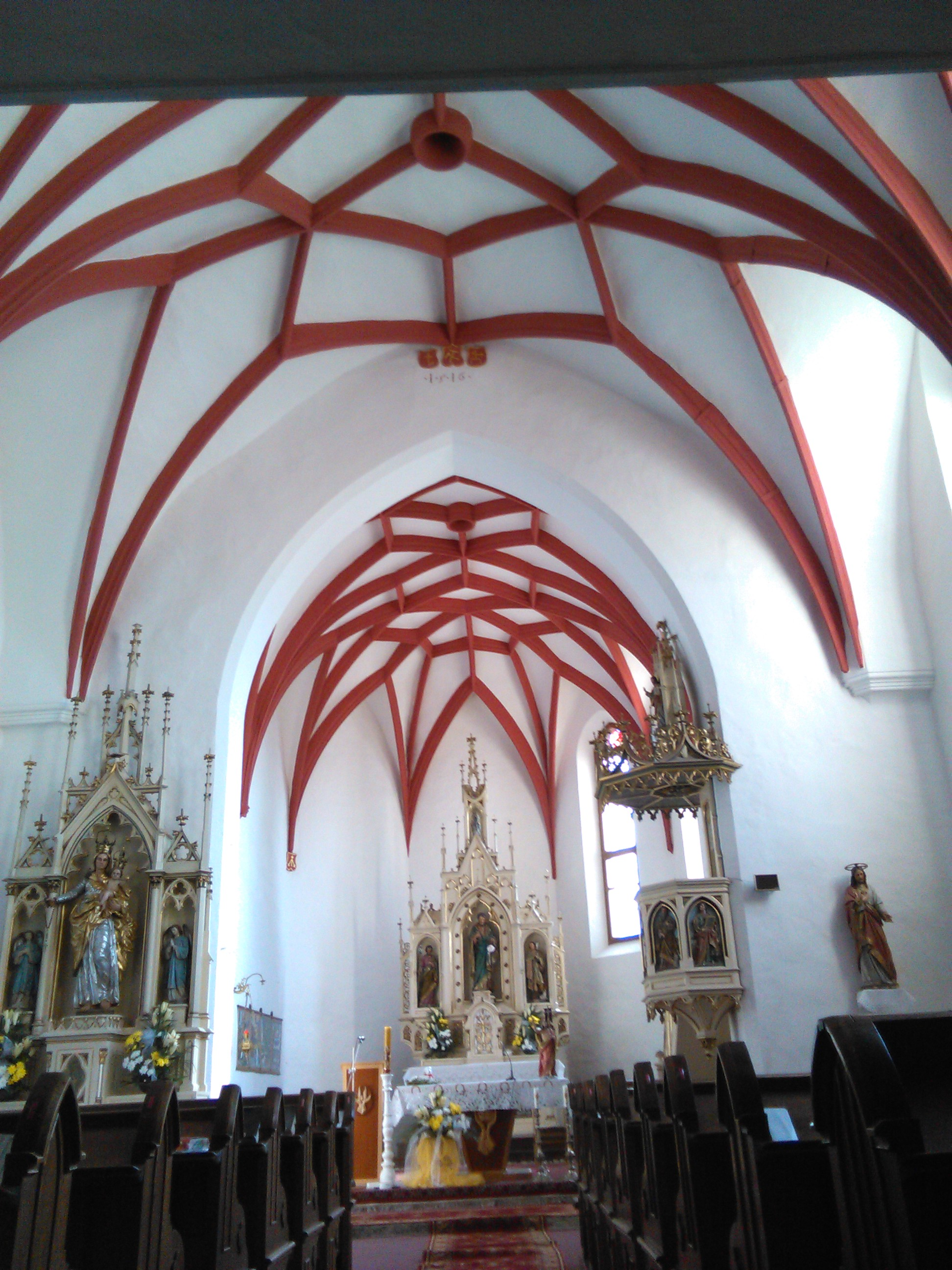 interiér